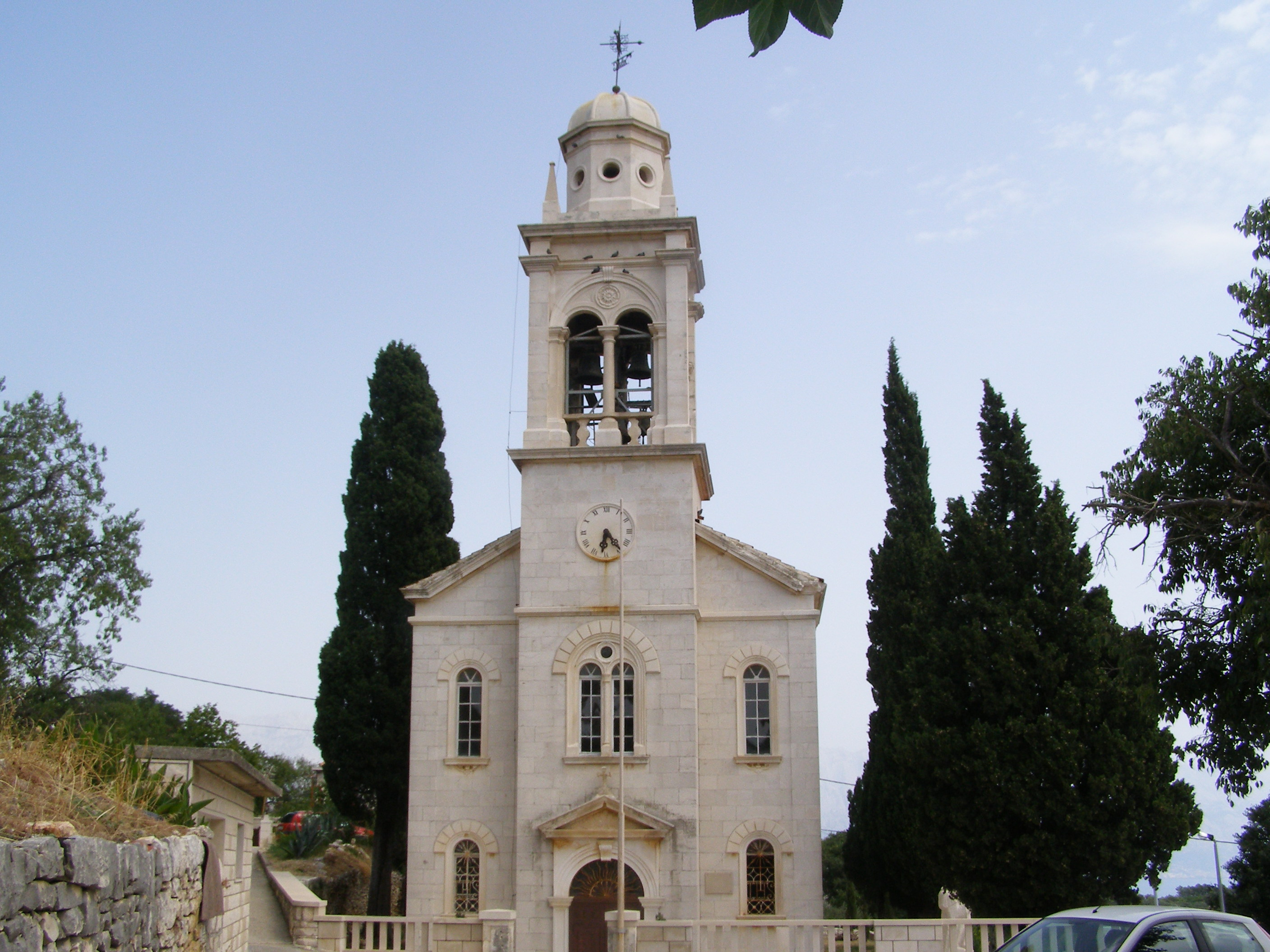 Roman Catholic Church, Novo Selo, Brac, Croatia.